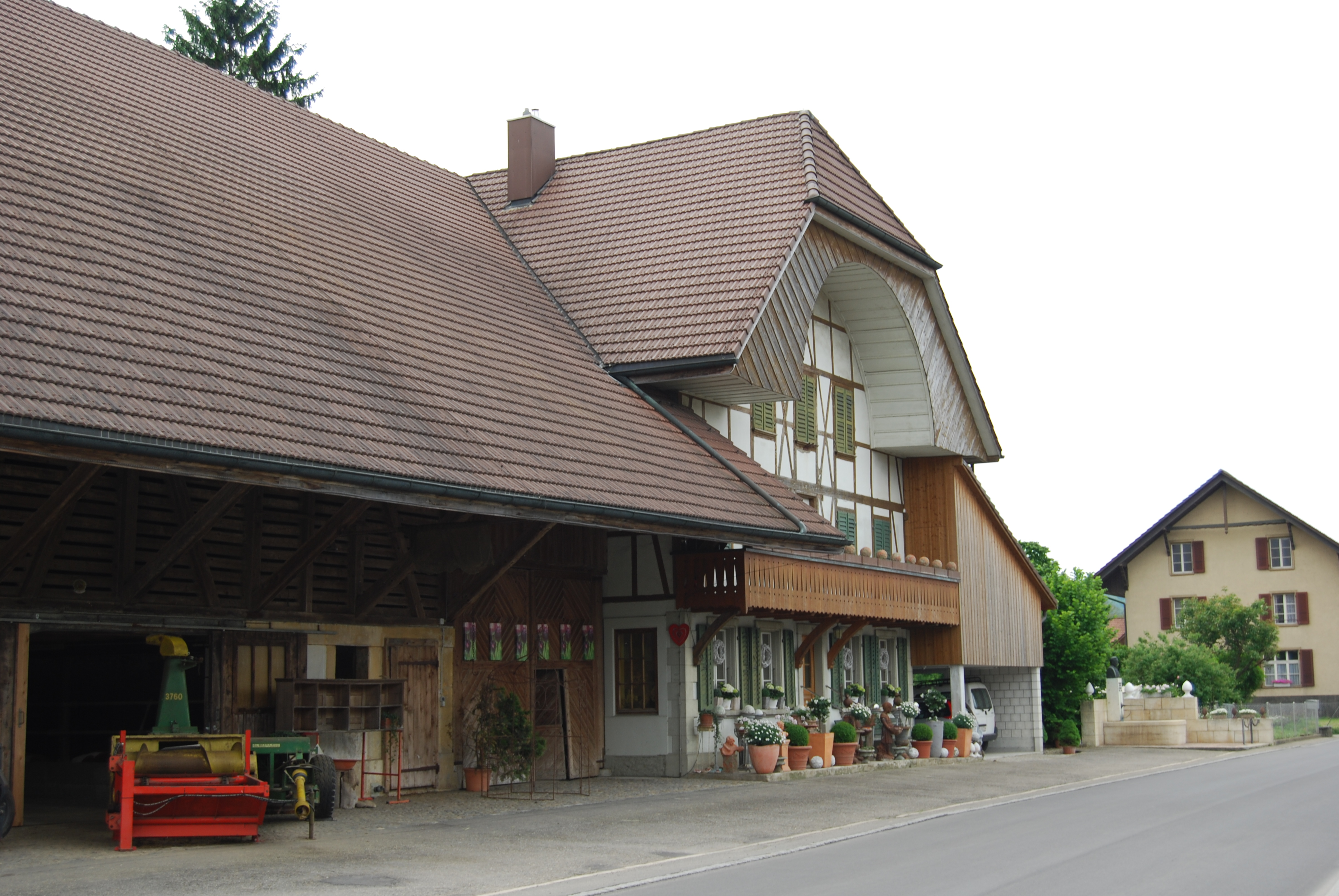 Timber framing house at Schwadernau, canton of Bern, Switzerland